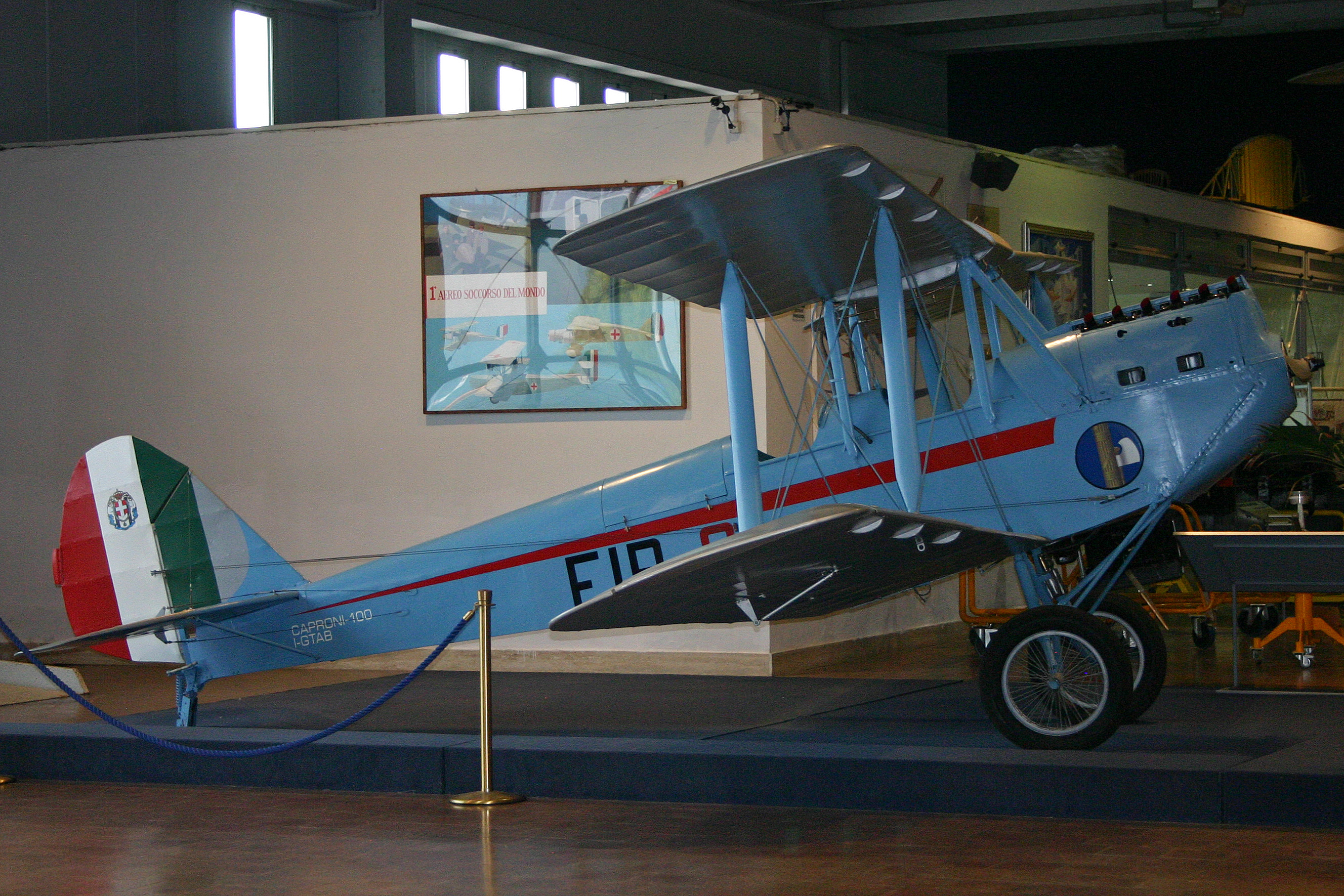 Displayed in Hangar VELO